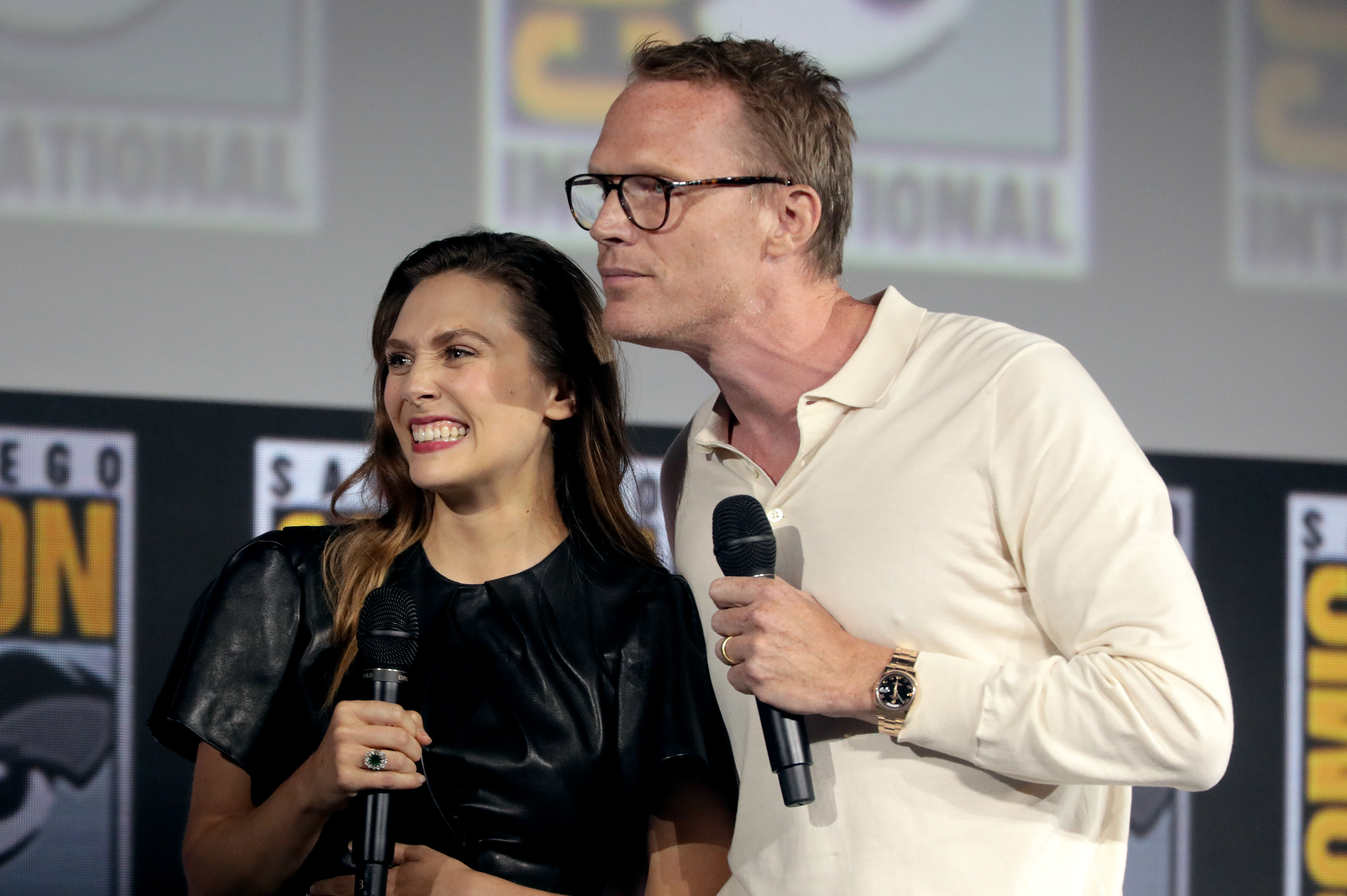 Elizabeth Olsen and Paul Bettany speaking at the 2019 San Diego Comic Con International, for "WandaVision", at the San Diego Convention Center in San Diego, California.